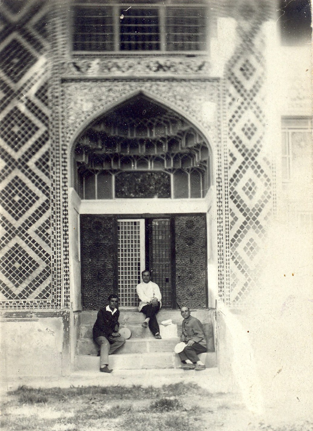 Sarabski in Khan's Palace of Shaki